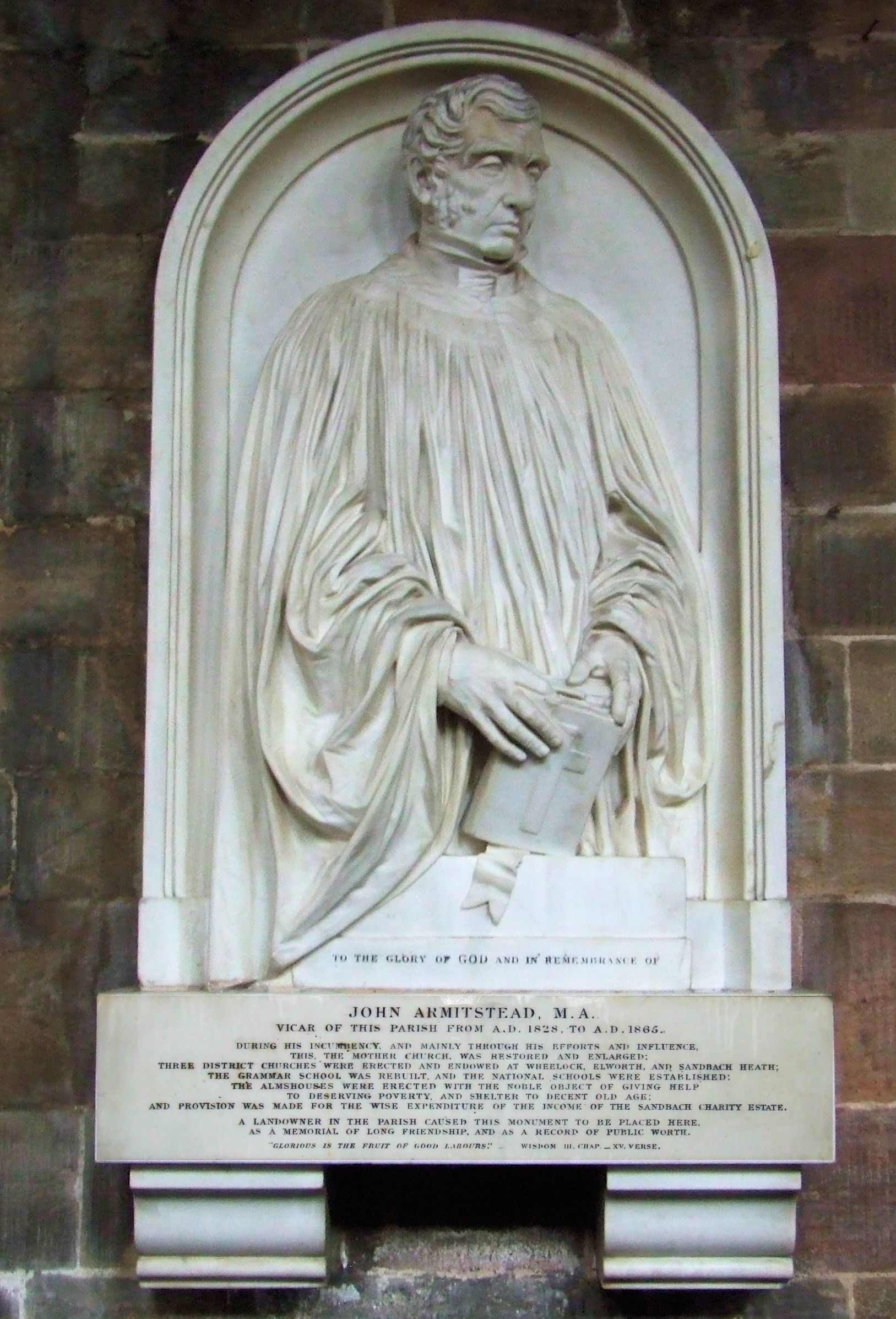 1876 sculpture of John Armistead M.A., Vicar of Sandbach 1828-1865, by George Frederic Watts, sculpted by George Nelson, at St Mary's Church, Sandbach The plaque reads: To the glory of God and in remembrance of John Armistead M.A. Vicar of this Parish from A.D. 1828 A.D. 1865. During his incumbency and mainly through his efforts and influence, This, the mother church, was restored and enlarged, Three district churches were erected and endowed at Wheelock, Elworth and Sandbach Heath, The grammar school was rebuilt, and the national schools were established; The almshouses were were erected with the noble object of giving help To deserving poverty, and shelter to decent old age; And provision was made for the wise expenditure of the income of the Sandbach Charity Estate. A landowner in the Parish caused this monument to be placed here, As a memorial of long friendship, and as a record of public worth. "Glorious is the fruit of good labours" -- Wisdom III Chap. - XV Verse. A side note reads: G.F. Watts, R.A. Geo. Nelson Sculptors 1876.